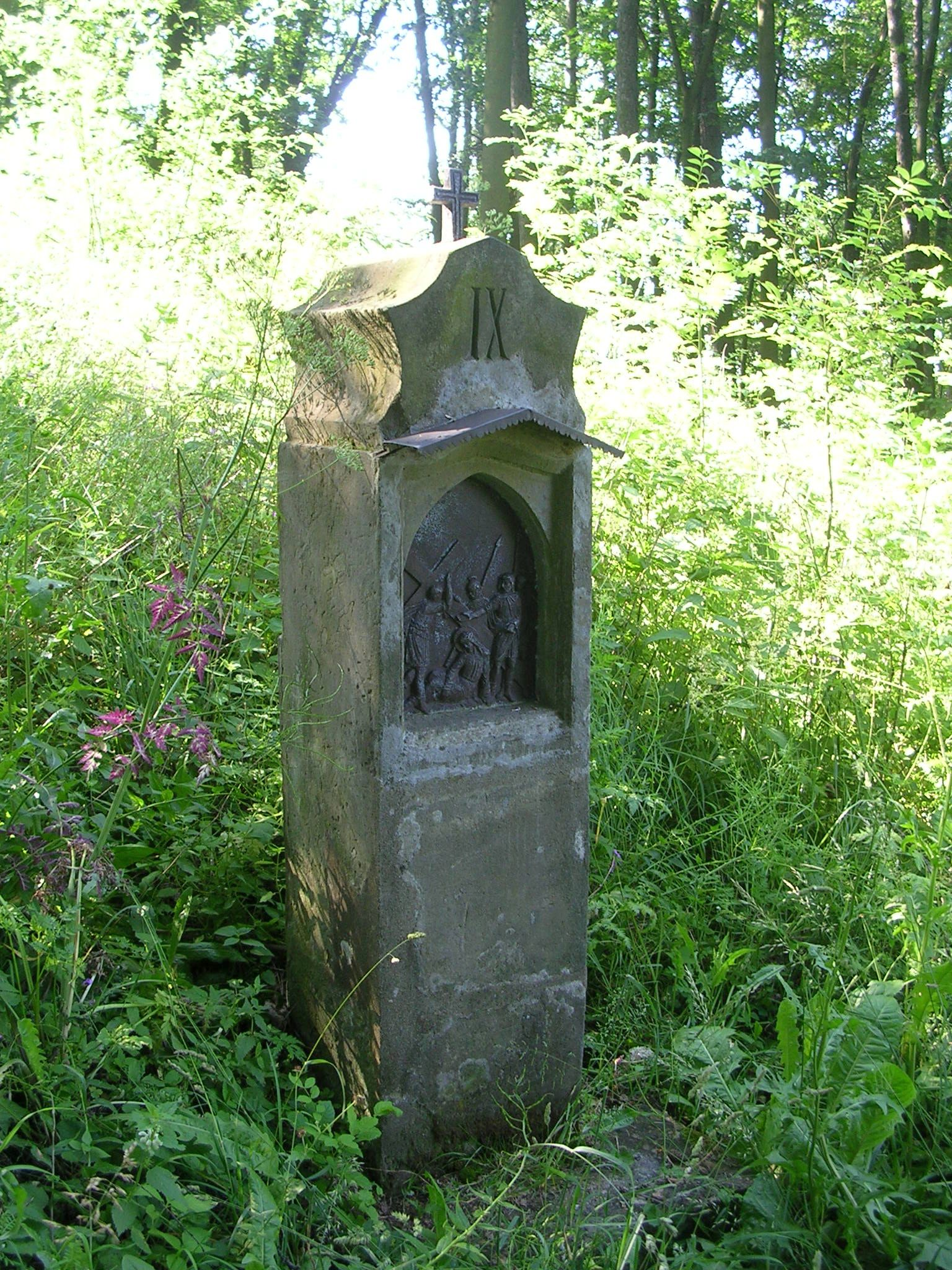 Vyskeř, Semily District, Liberec Region, the Czech Republic. Stations of the Cross at the Vyskeř Hill.